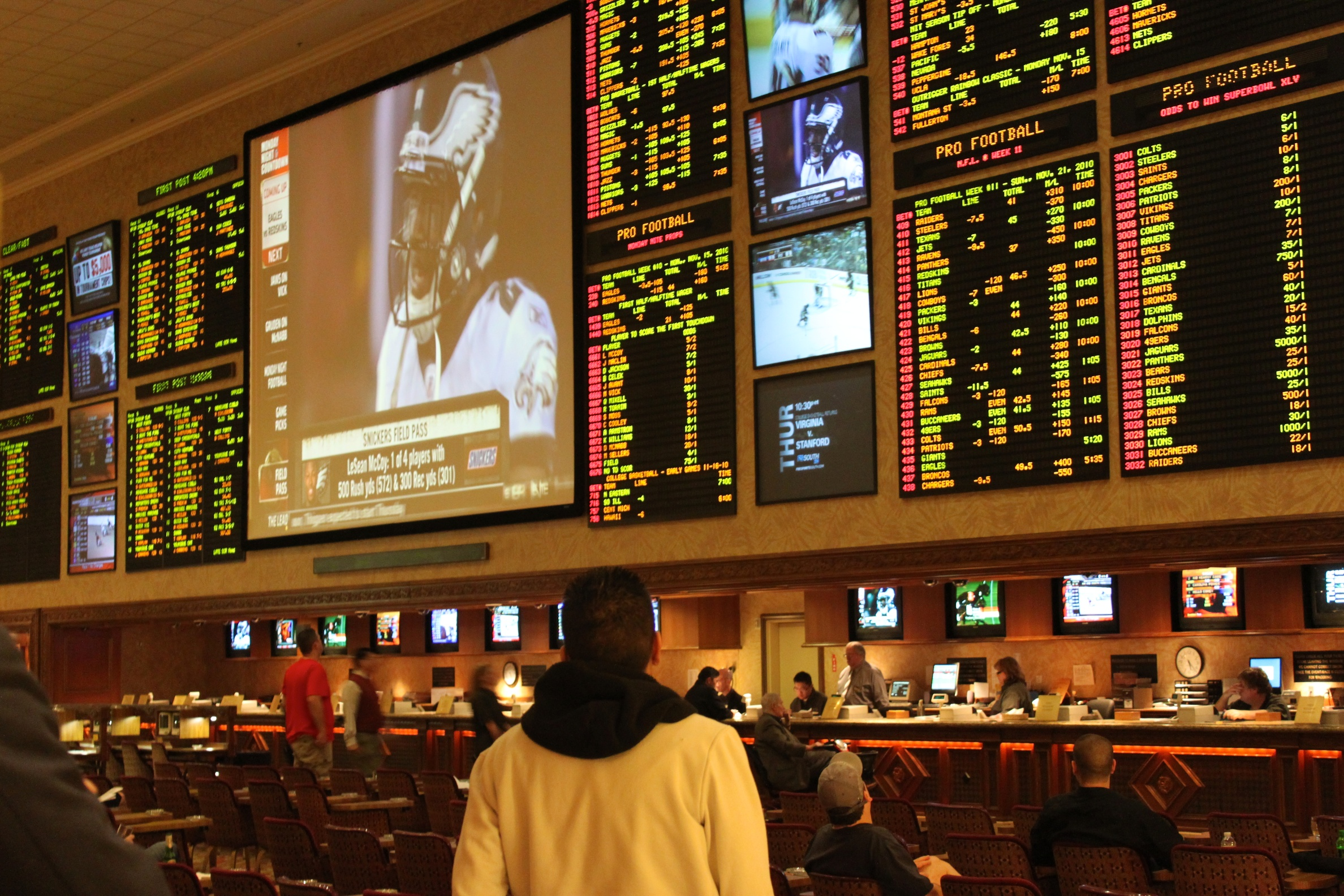 Odds boards at a race and sports book in Las Vegas